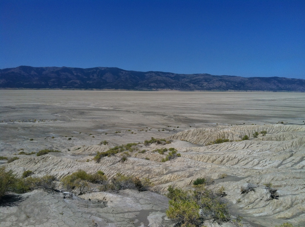 Dry lakebed, or playa, in Surprise Valley, Modoc County, California, USA, with the Warner Mountain Range in the distance. September, 2012.